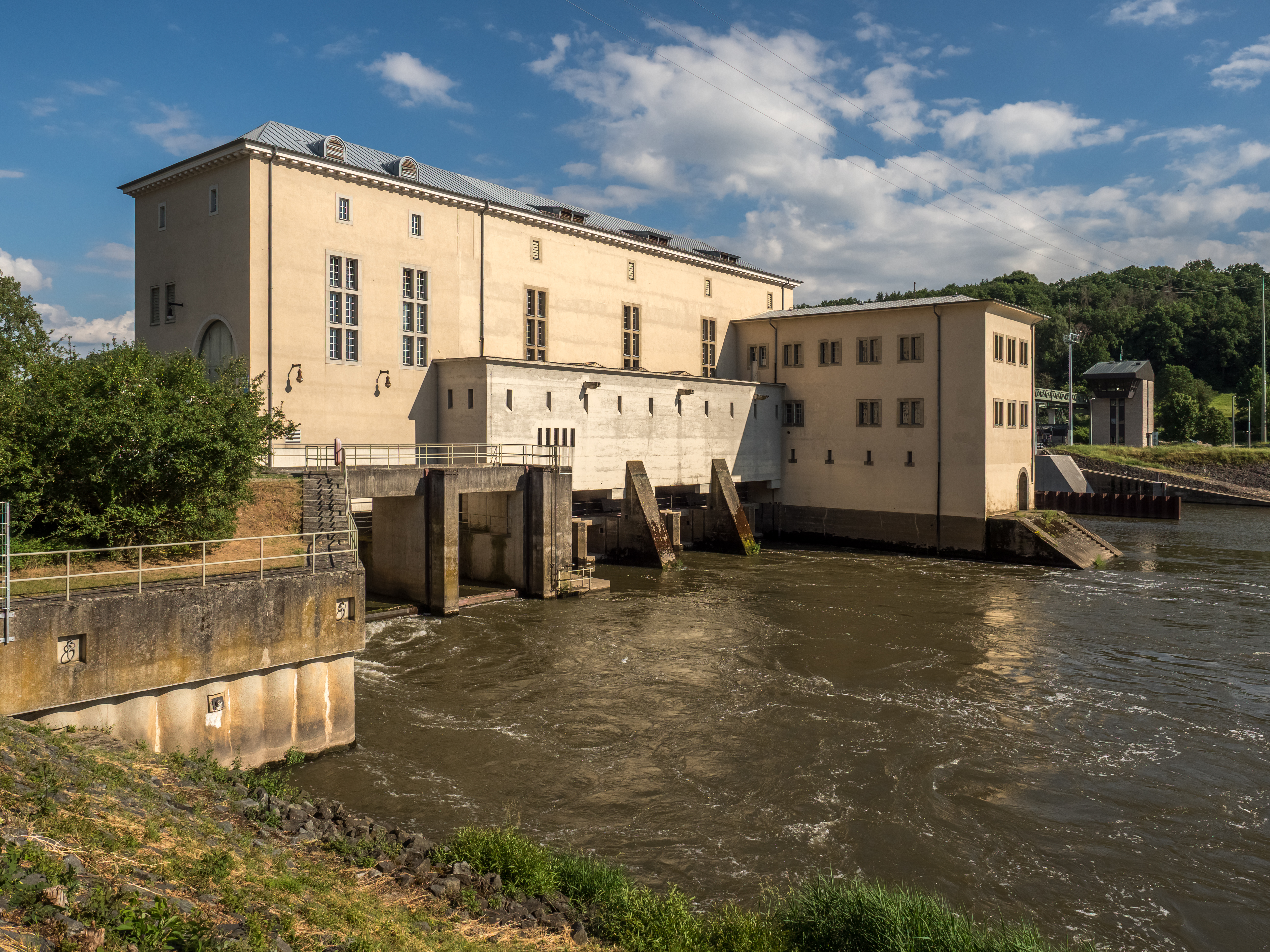 Power station of the barrage Viereth, Bavaria